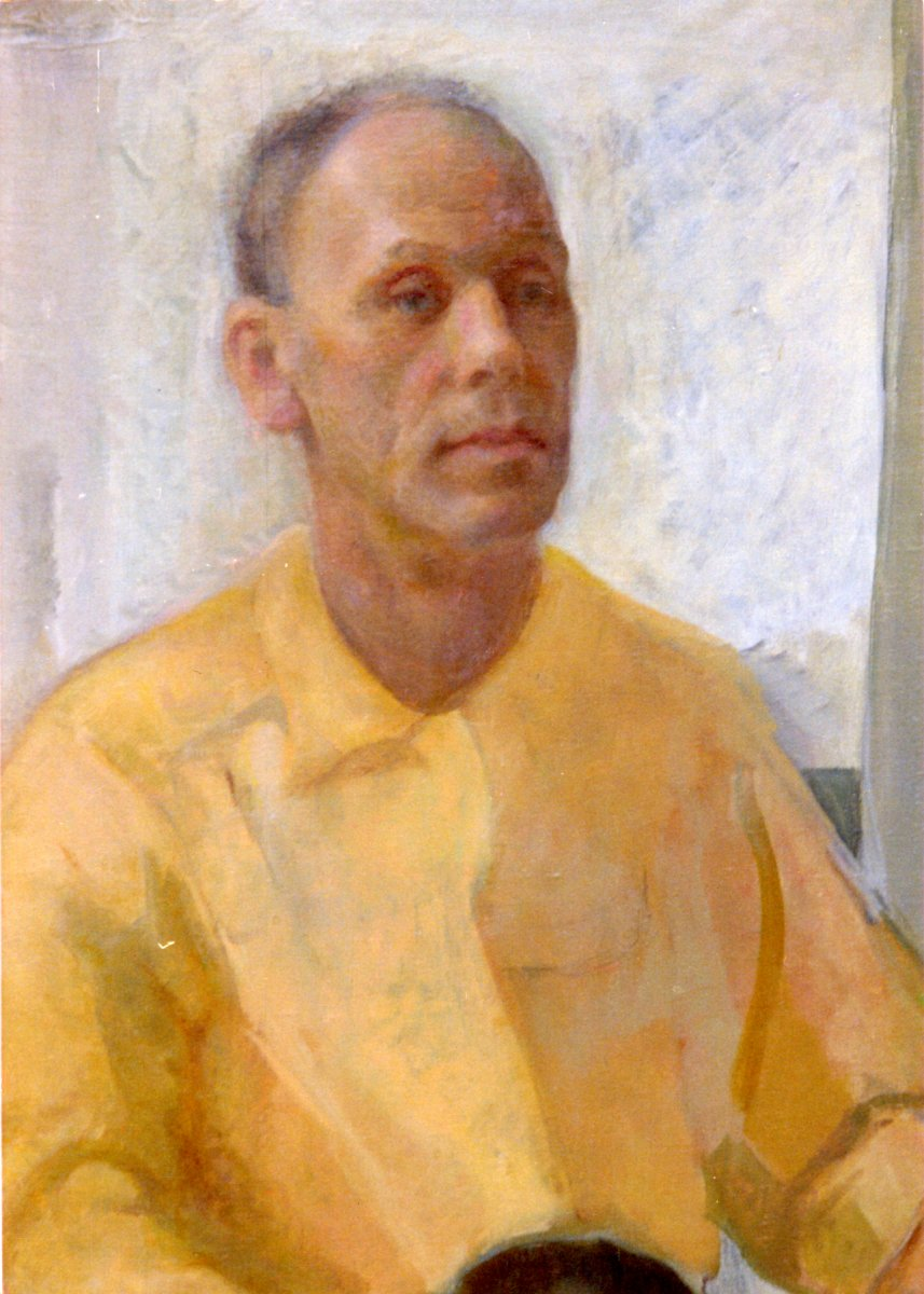 Portrait displayed at Memorial Art Gallery, Rochester, N.Y.